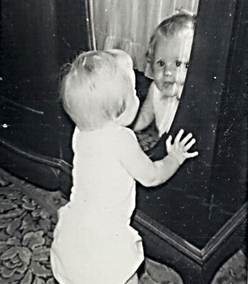 Child (me) aged 10 to 12 months looking at the mirror in my grandmother's room.